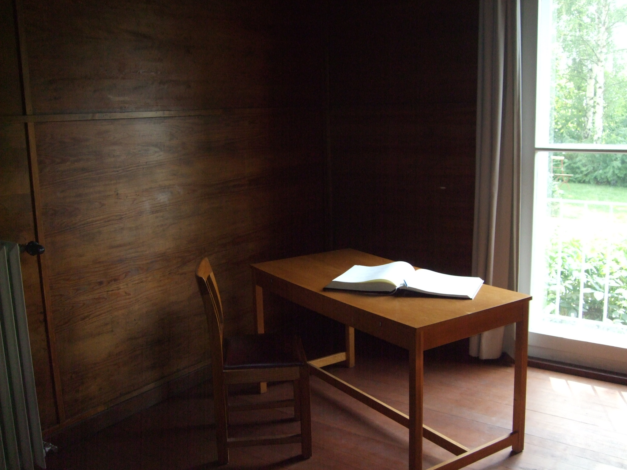 Albert Einstein's summer house in Caputh near Potsdam, working room in the first floor